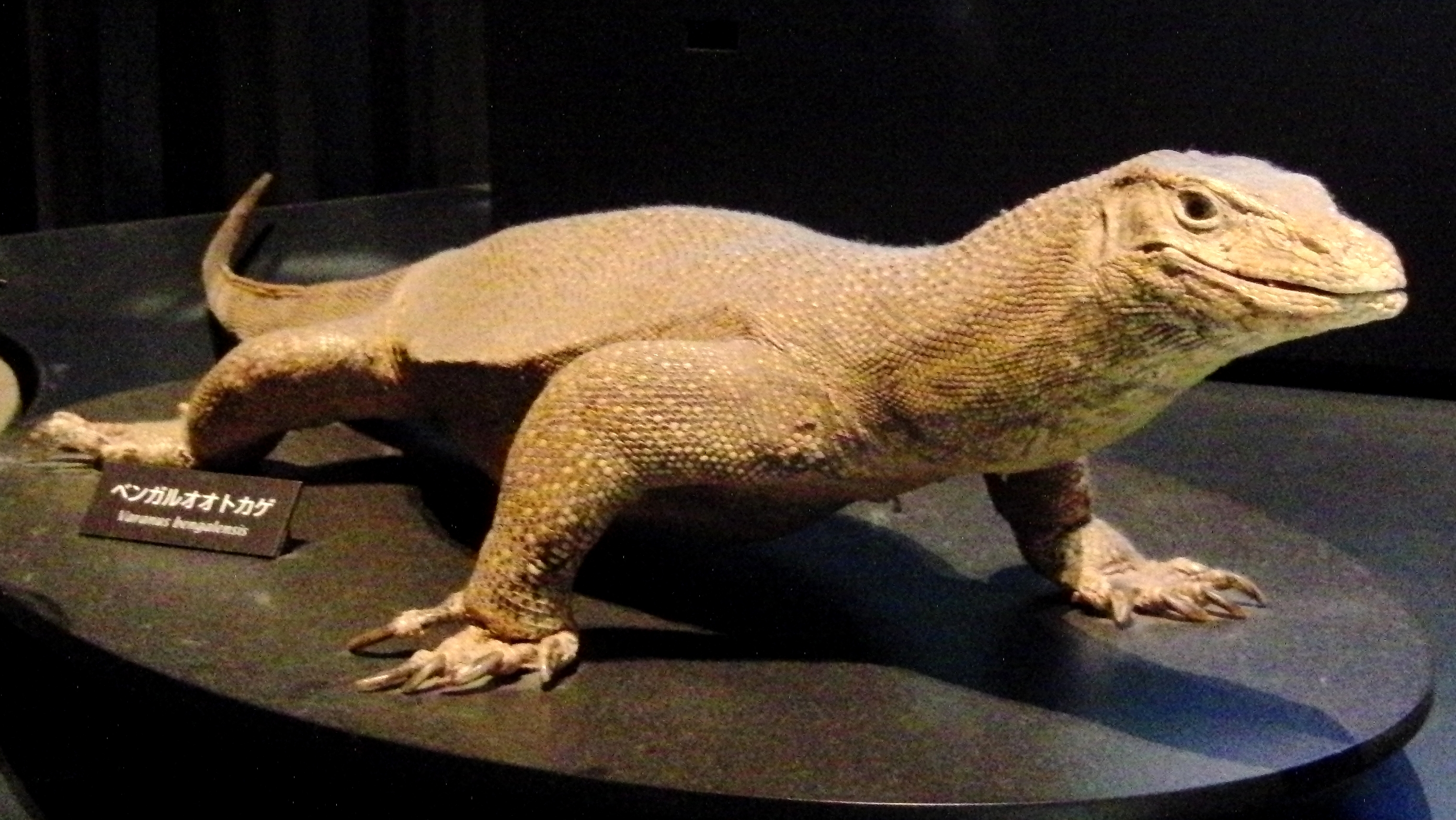 Stuffed specimen of Bengal monitor (Varanus bengalensis). Exhibit in the National Museum of Nature and Science, Tokyo, Japan.